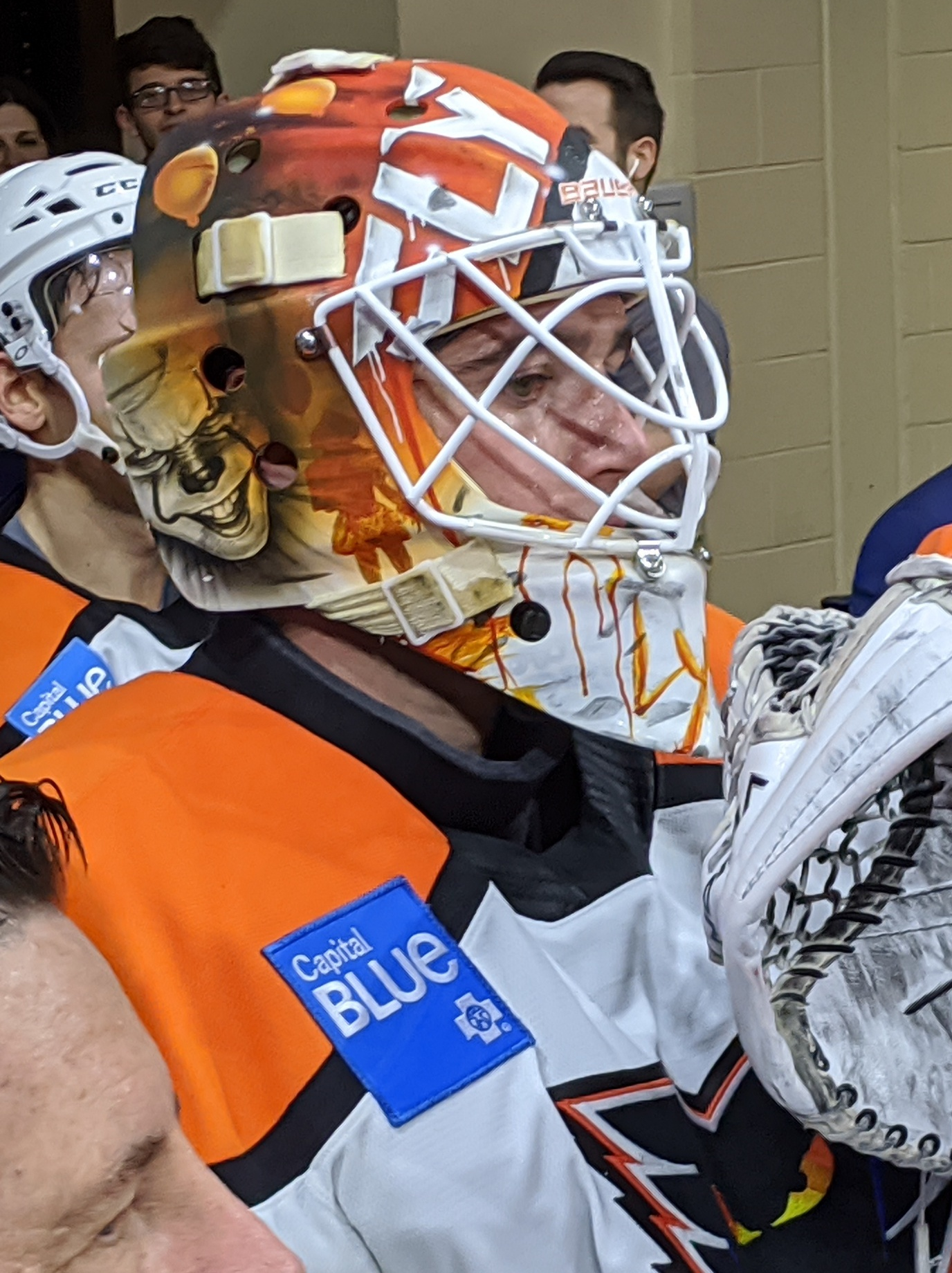 Alex Lyon, a goaltender with the Lehigh Valley Phantoms ice hockey team, at the PPL Center in Allentown, Pennsylvania, on January 11, 2020.